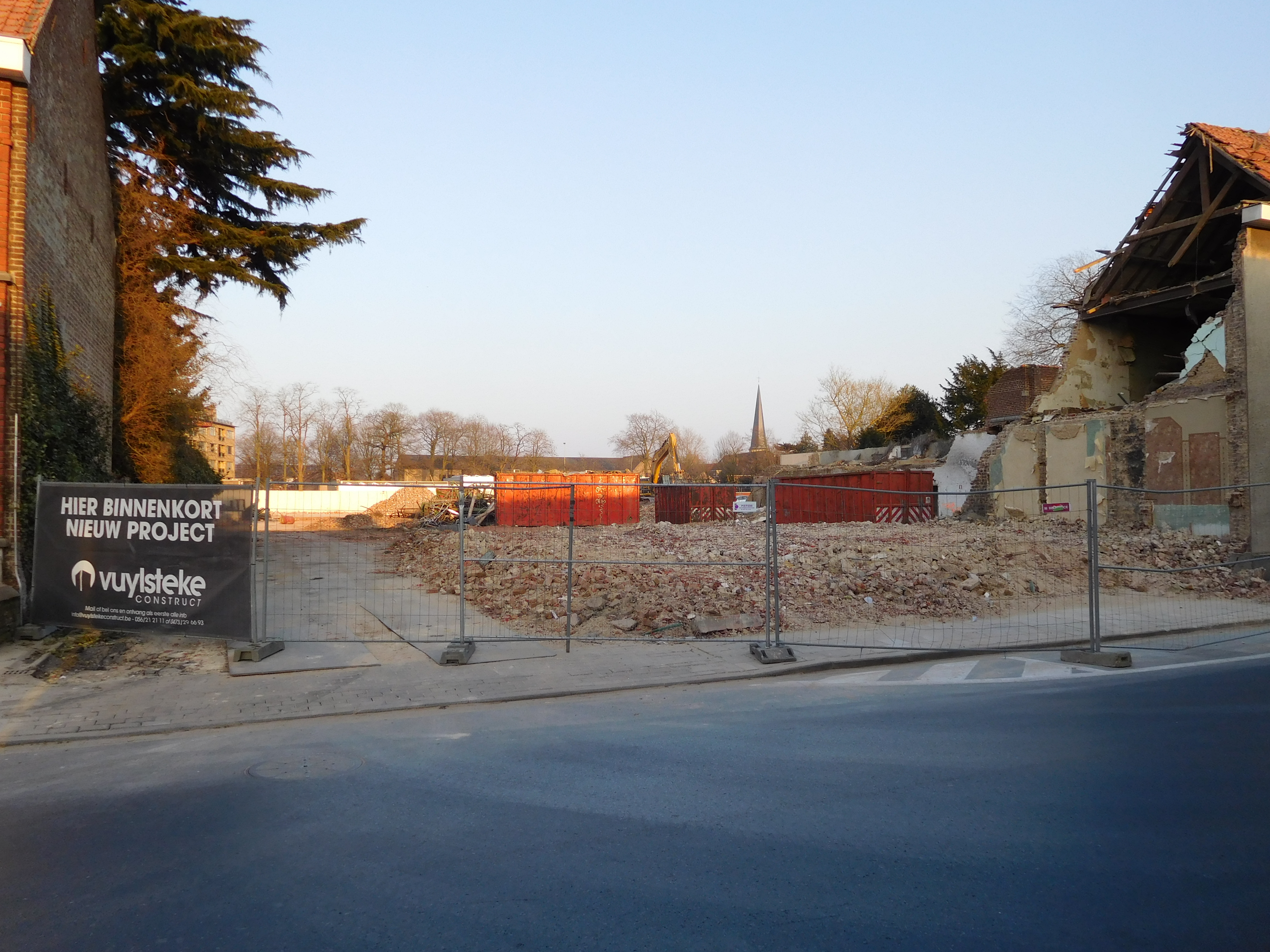 Demolition of the old commercial properties Verstraete-Verbauwede at Beverenstraat in Deerlijk, 2016